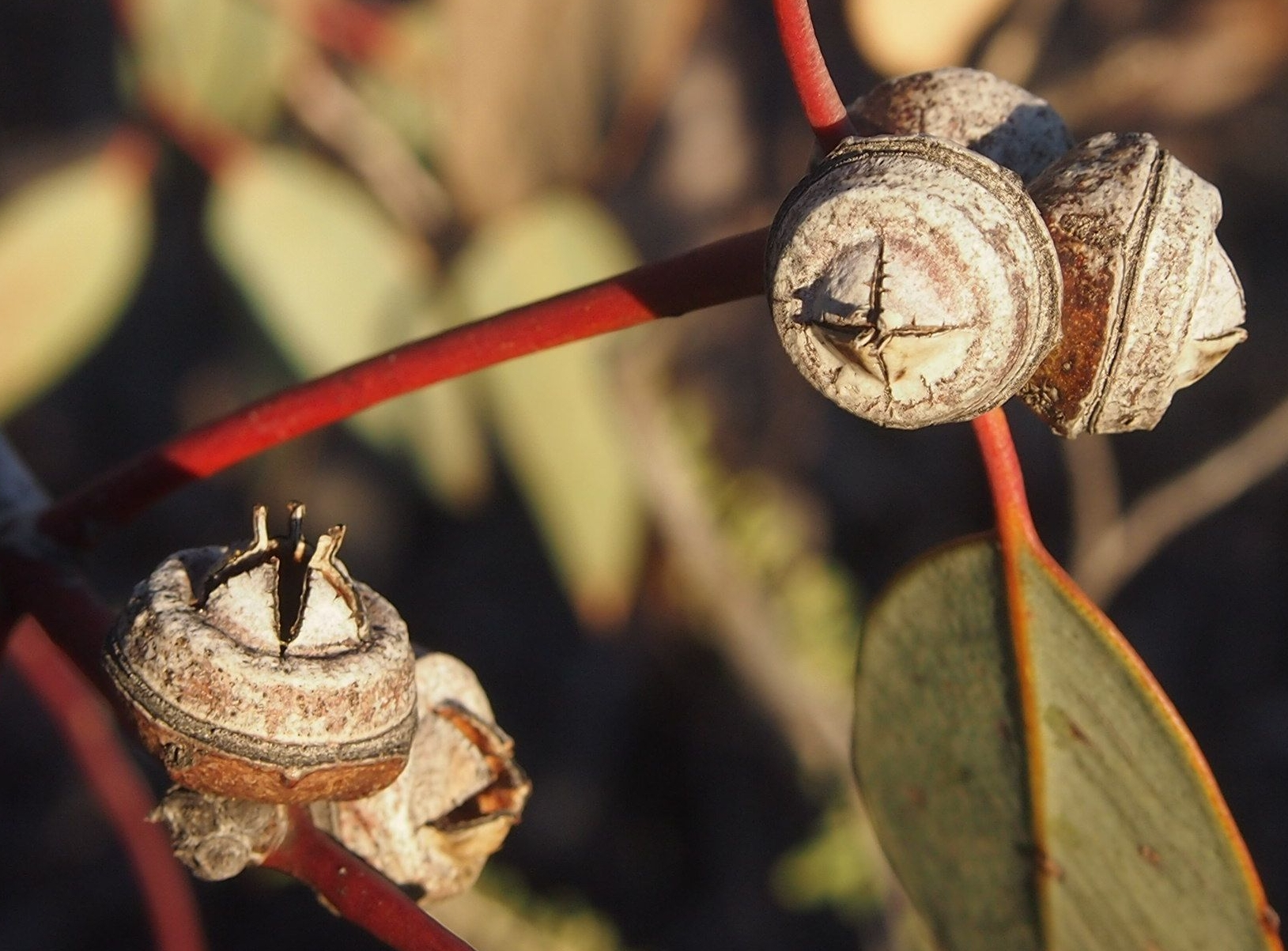 Eucalyptus sessilis capsules